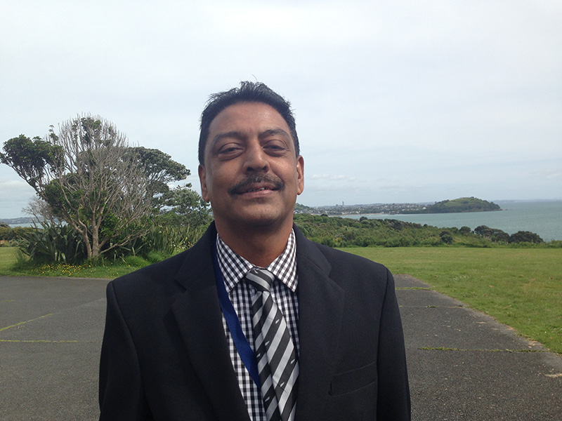 Fijian MP Prem Singh in 2016